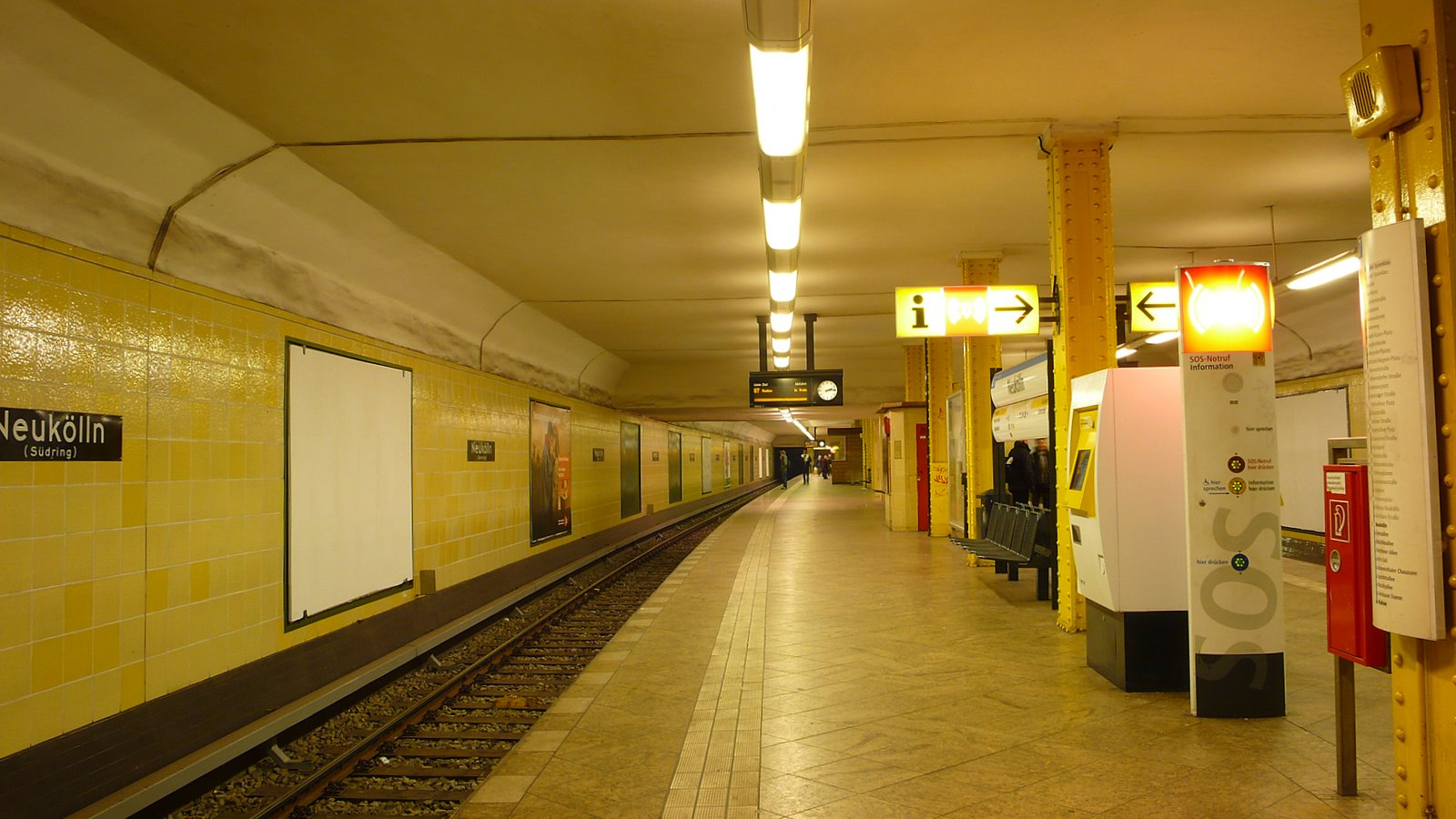 Neukoelln subway